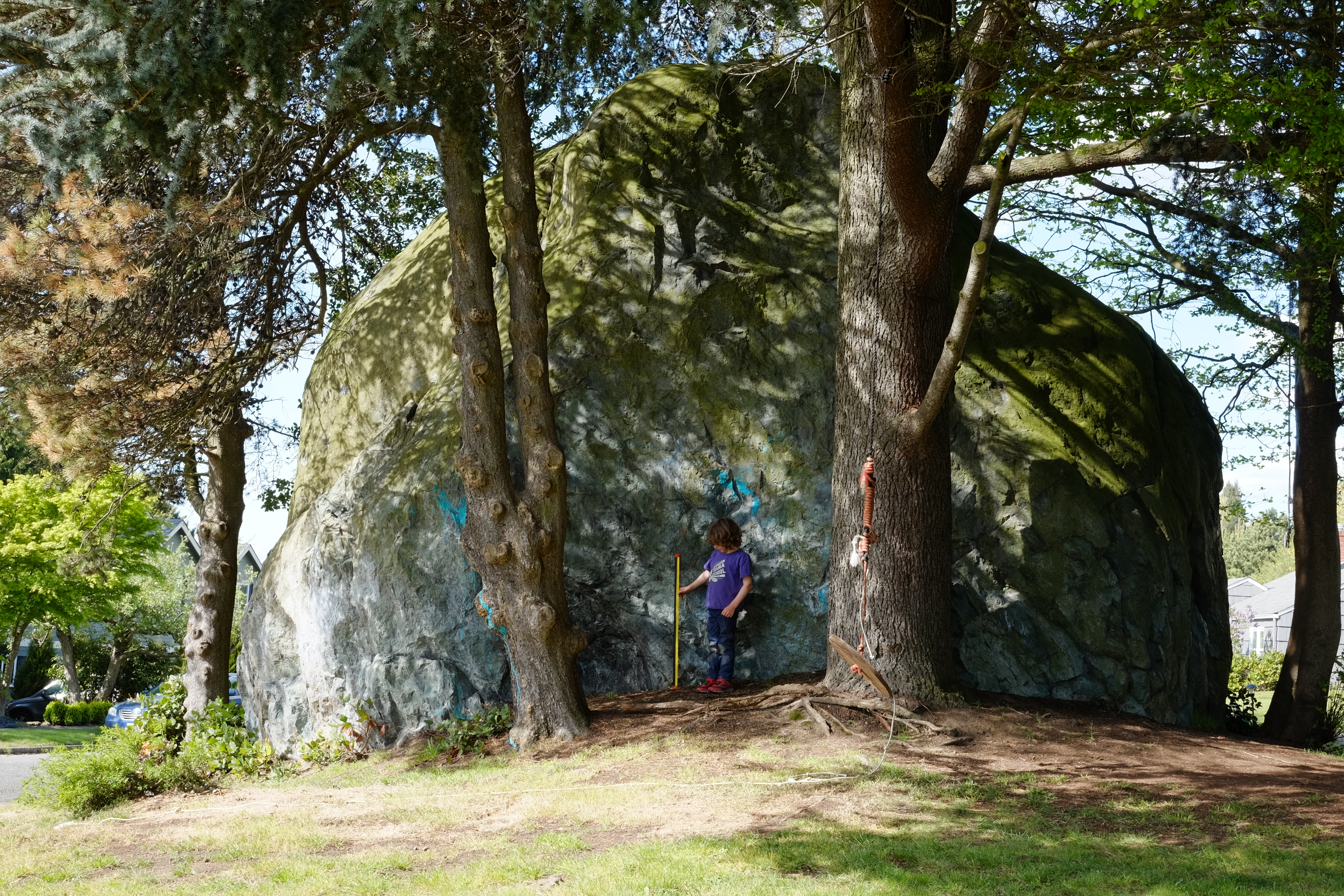 Wedgwood Rock glacial erratic at NE 72nd Street and 28th Avenue NE in Seattle, Washington, US. Stick is one yard.